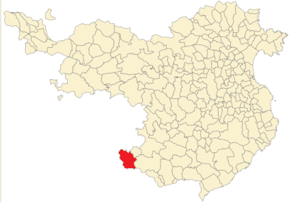 Viladrau, in Gerona (Spain)